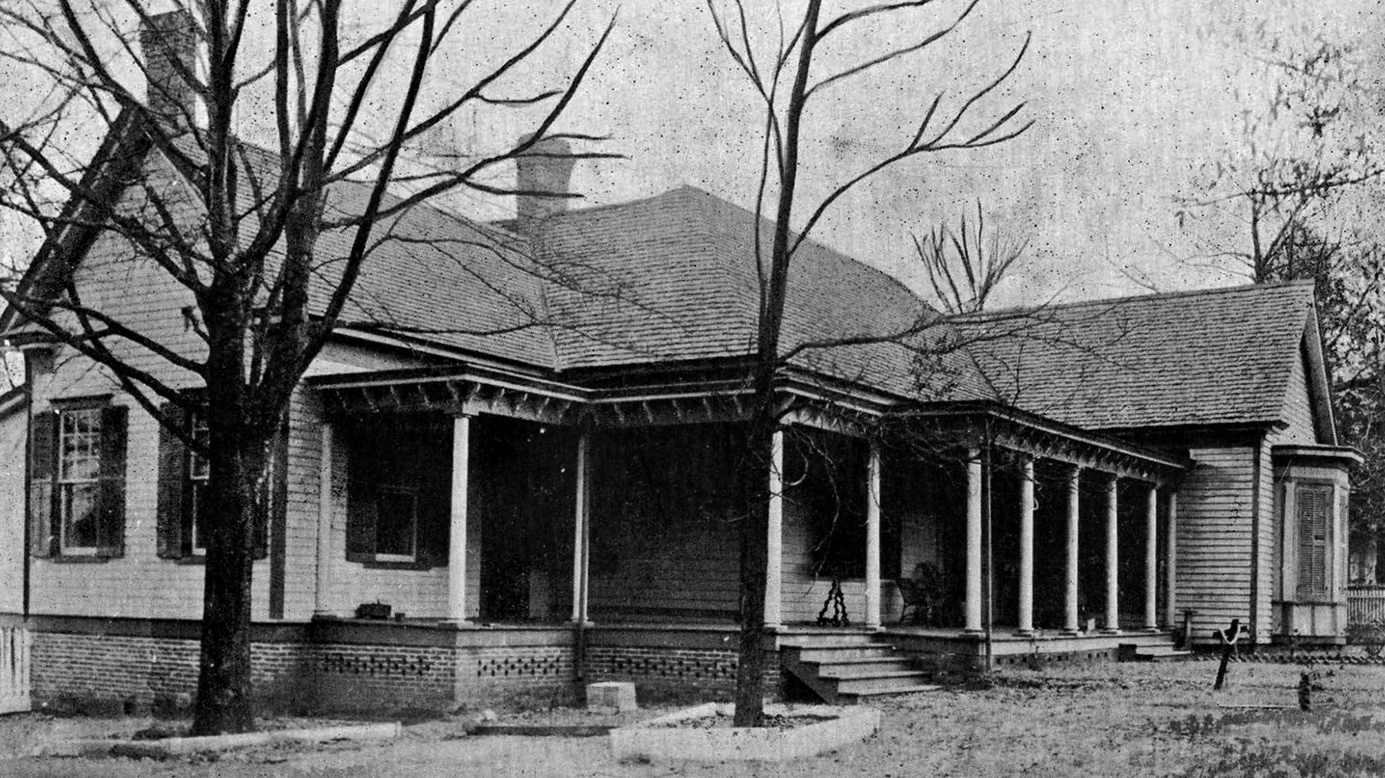 This image is scanned from a silver gelatin print photograph of the Robert Wilton Burton House in Auburn, Alabama from my personal collection. The photograph's date is unknown.